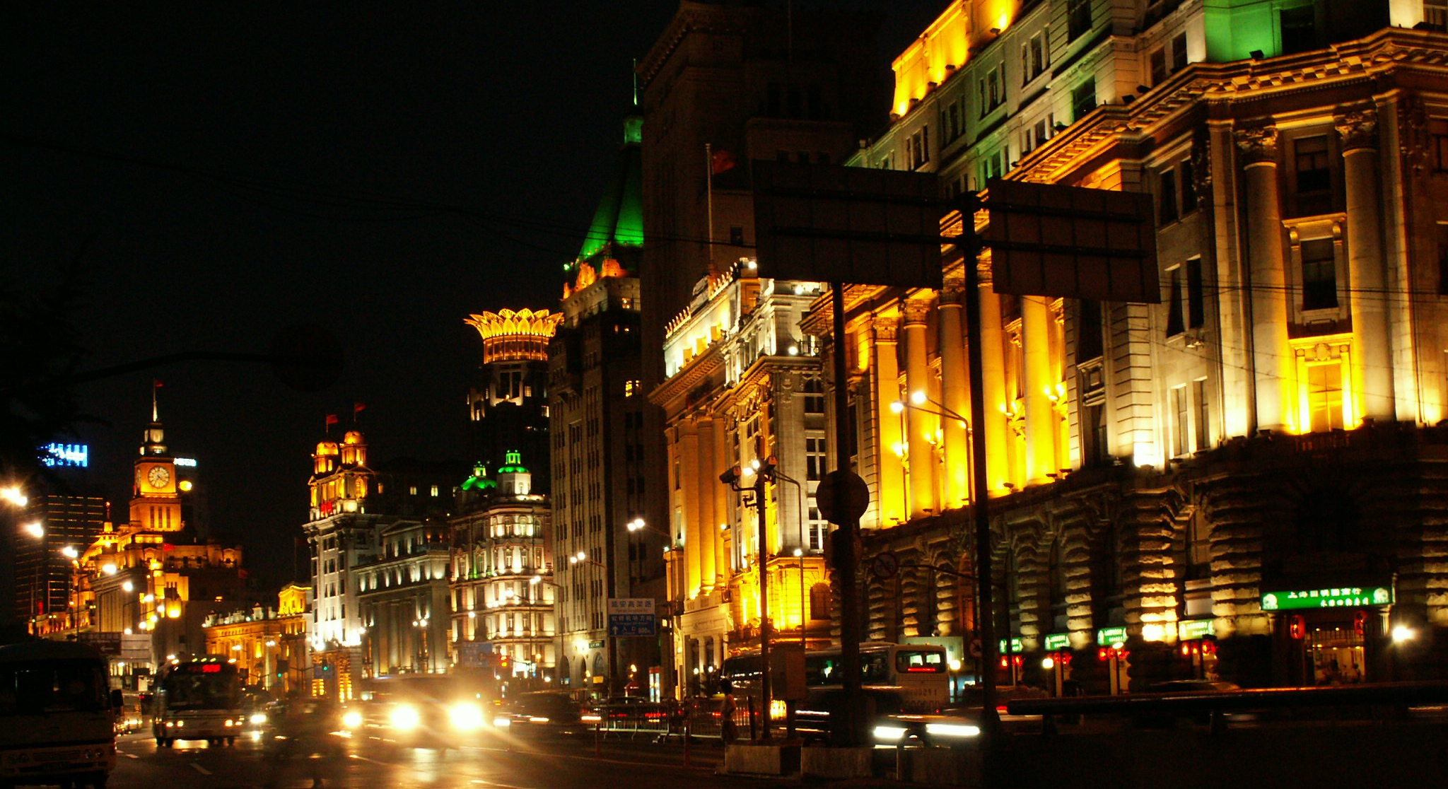 View of The Bund in Shanghai, China.